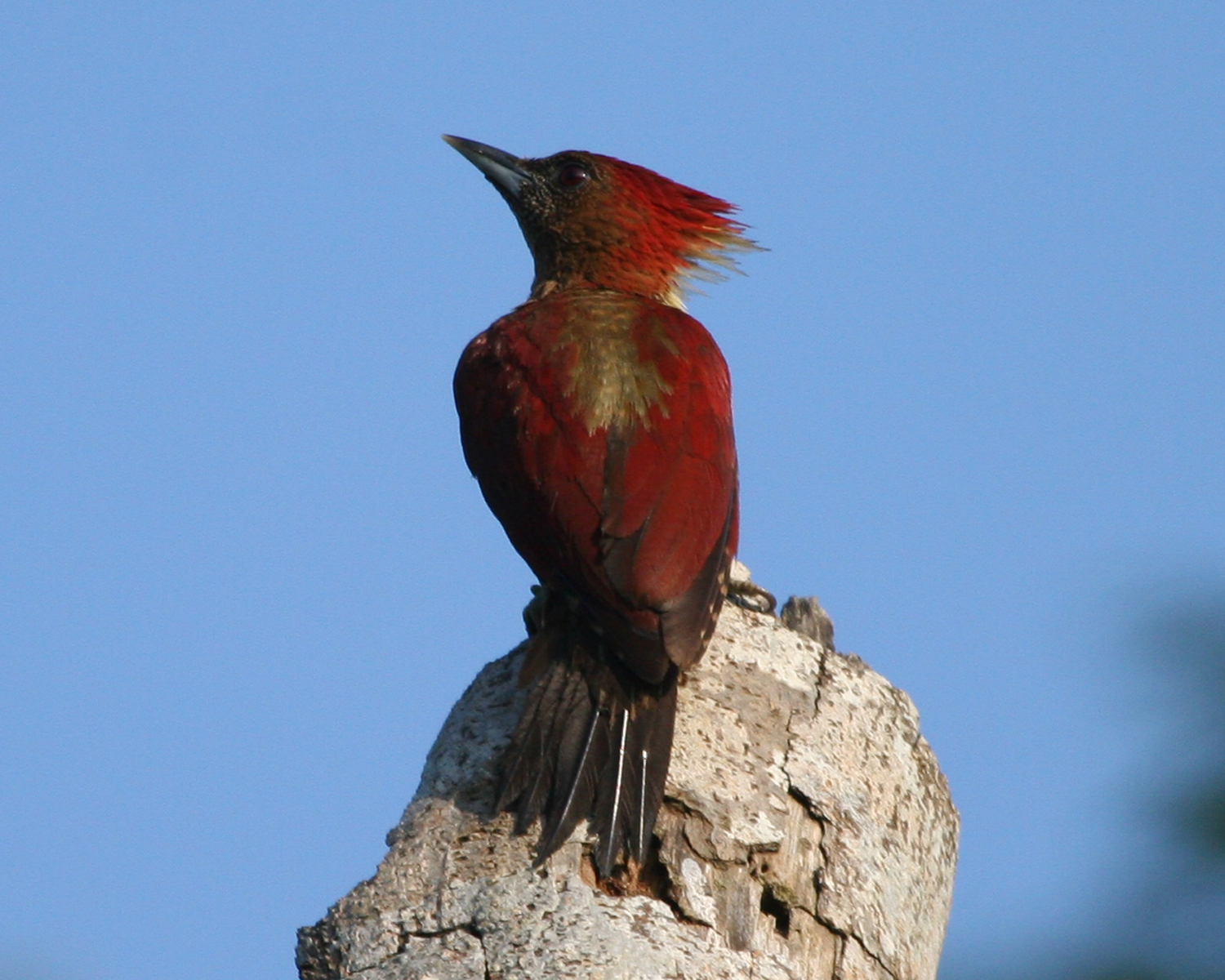 Female banded woodpecker in Johor Bahru, Malaysia